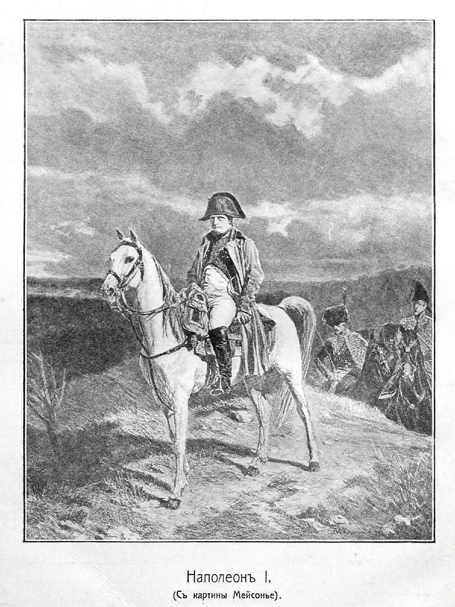 Napoléon Bonaparte (French: [napoleɔ̃ bɔnɑpaʁt]; 15 August 1769 – 5 May 1821) was a French statesman and military leader who rose to prominence during the French Revolution and led several successful campaigns during the French Revolutionary Wars. As Napoleon, he was Emperor of the French from 1804 until 1814, and again briefly in 1815 during the Hundred Days. Napoleon dominated European and global affairs for more than a decade while leading France against a series of coalitions in the Napoleonic Wars. He won most of these wars and the vast majority of his battles, building a large empire that ruled over continental Europe before its final collapse in 1815. He is considered one of the greatest commanders in history, and his wars and campaigns are studied at military schools worldwide. Napoleon's political and cultural legacy has endured as one of the most celebrated and controversial leaders in human history.